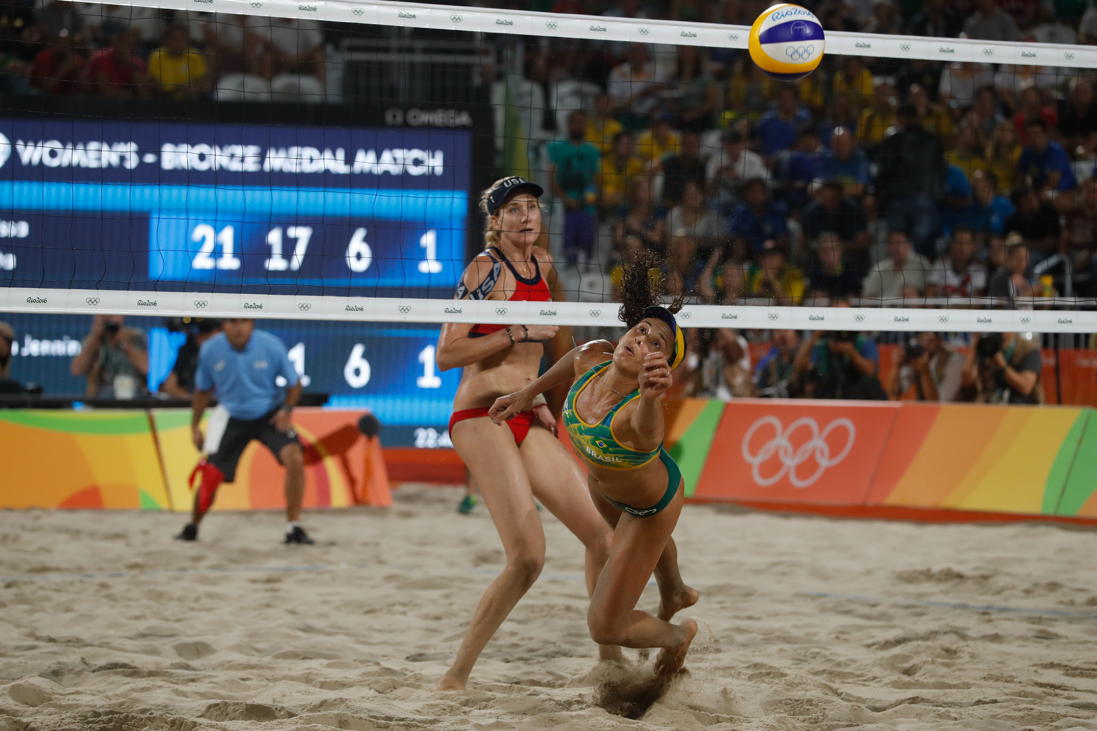 Rio de Janeiro - Dupla de vôlei de praia do Brasil Larissa e Talita perdem a disputa de bronze para norte-americanas Walsh e Ross nos Jogos Olímpicos Rio 2016, em Copacabana ( Fernando Frazão/Agência Brasil)